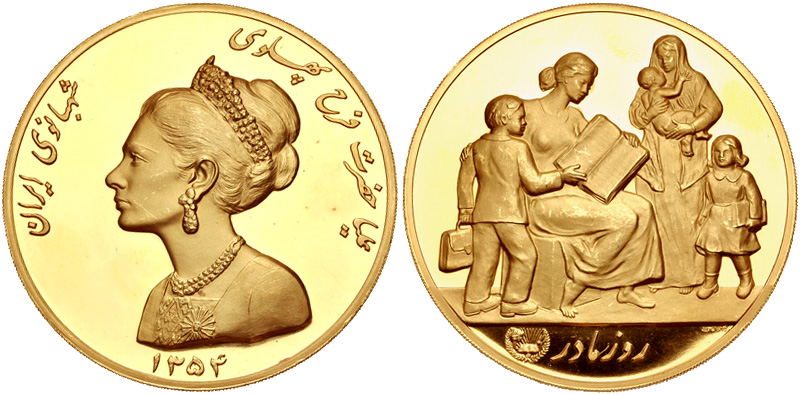 IRAN, Pahlavis. Muhammad Reza Shah. AH 1360-1398 / AD 1941-1979. Proof AV Medal (60mm, 100.00 g, 12h). Mother’s Day issue. Issued by the University's Credit Foundation. Dated SH 1354 (AD 1975). Bust of Shahbanu left, wearing tiara; date below / Mother and children standing around Shahbanu seated right, holding open book; University's Credit Foundation and fineness (.900). See Heritage 3067, lot 31856 (for a smaller example). Proof, light hairlines and marks.